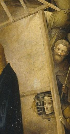 The Adoration of the Magi [central panel, detail].